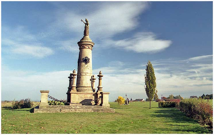 Memorial to Battery of the Death at Chlum conmemorates one of heaviest fights during Battle of Battle of Königgrätz (July 3, 1866).